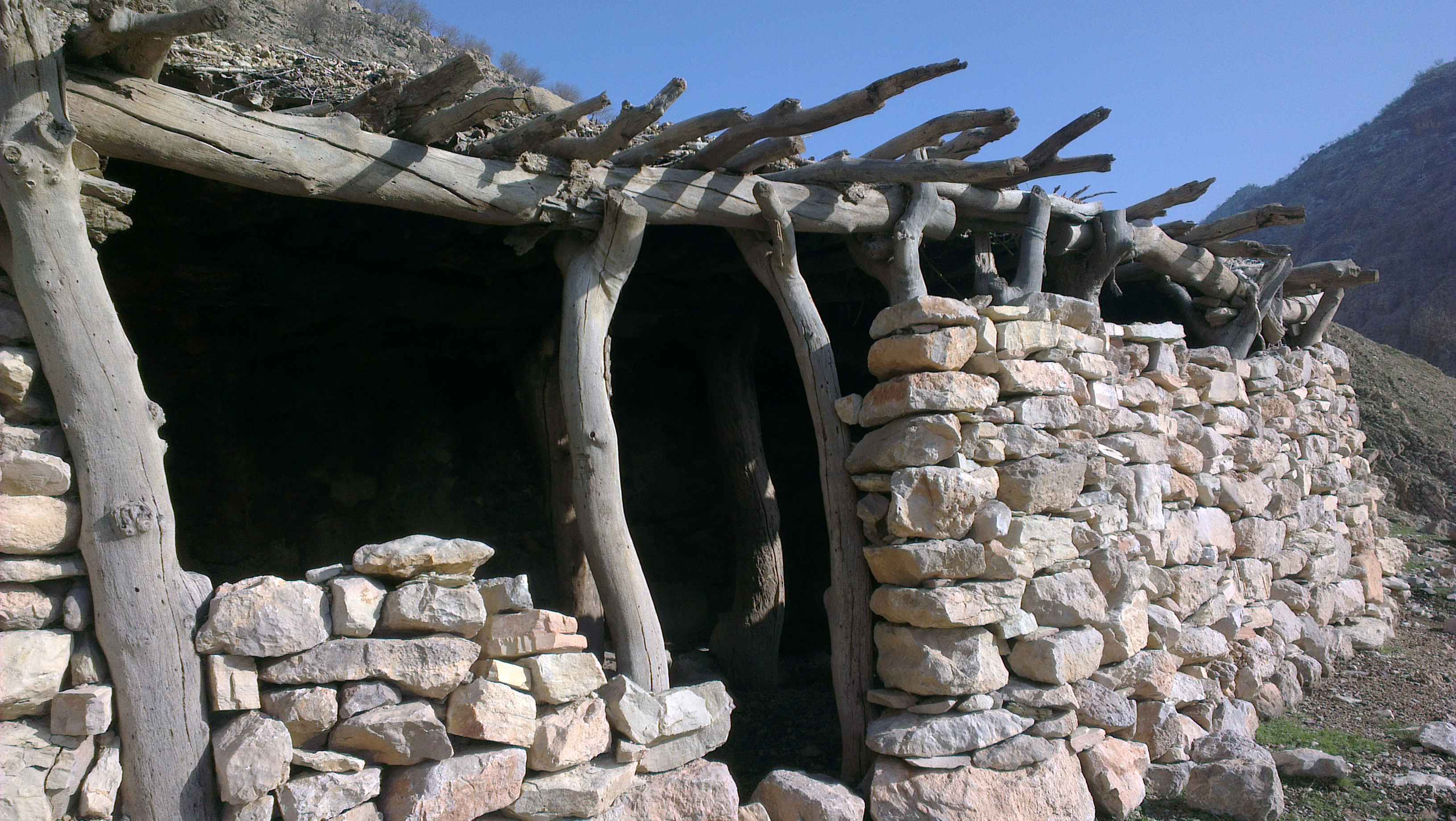 stone houses of choram